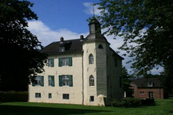 Cultural heritage monument No. 89 in Nettetal